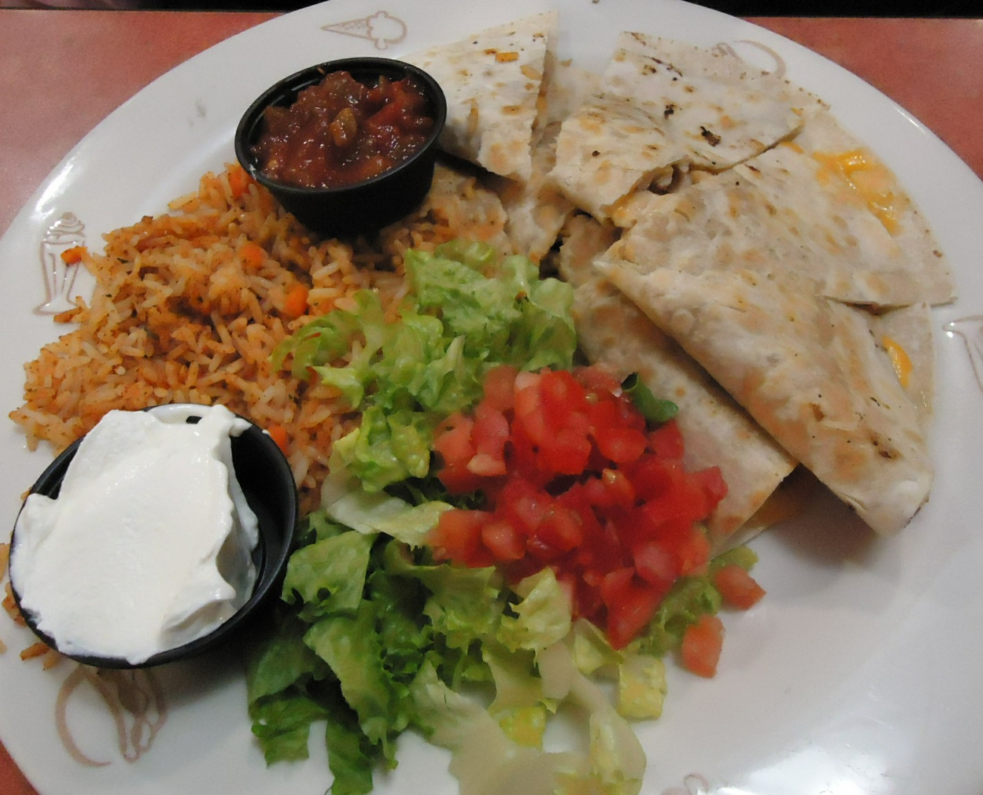 Dinner at Friendly's Restaurant: quesedillas (sp).